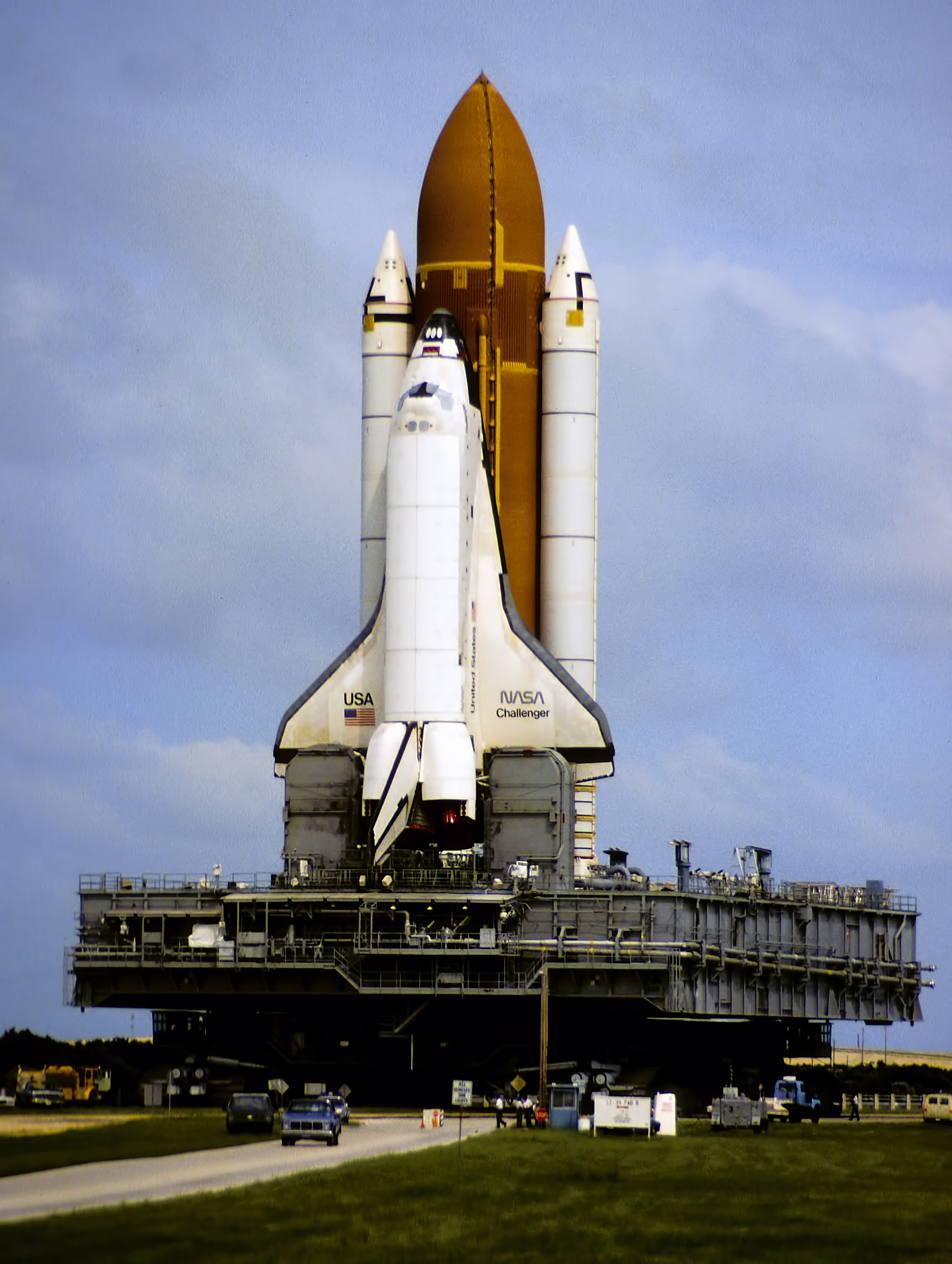 Space shuttle Challenger being moved to the launch pad on the crawler in September 1985 preparing for STS-61-A, its next-to-last flight. Scanned from a slide.